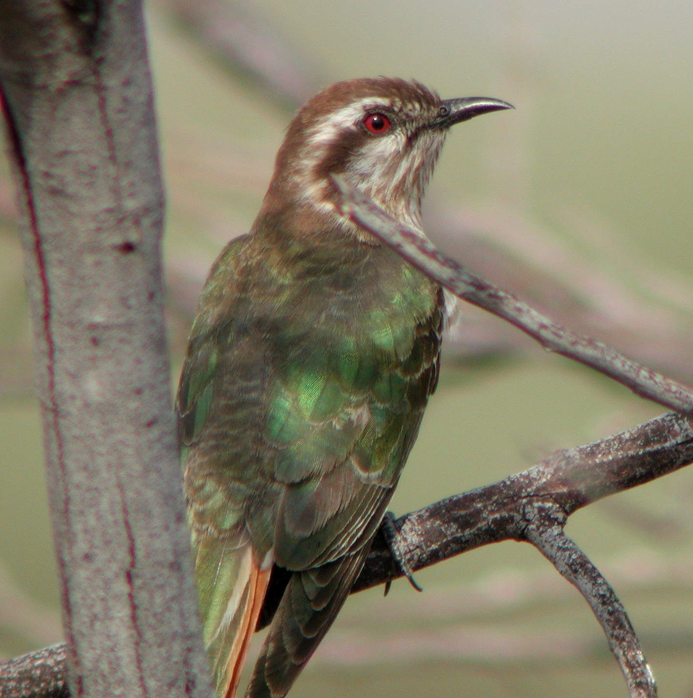 Horsfield's Bronze-Cuckoo (Chrysococcyx basalis) Newhaven NT